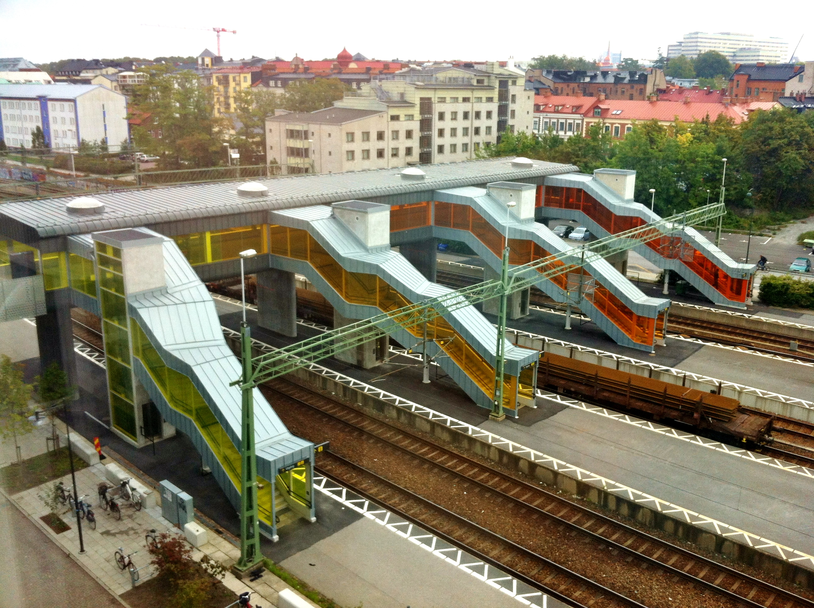 Lund C, Skyttelbron - Shuttle bridge